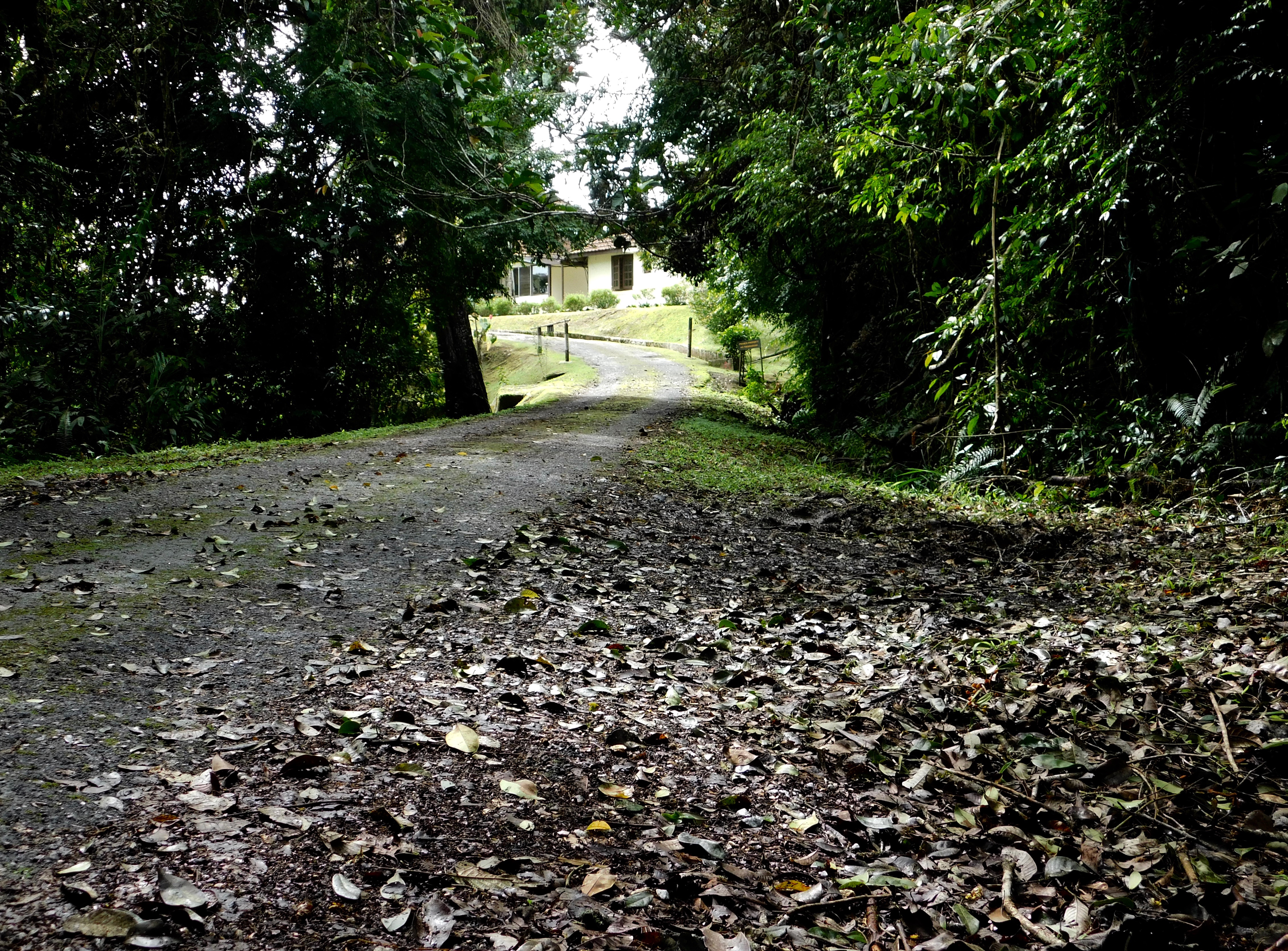 The driveway leading to the Lutheran Mission bungalow (Address: A45, Jalan Kamunting, 39000, Tanah Rata, Cameron Highlands, Pahang, Malaysia).